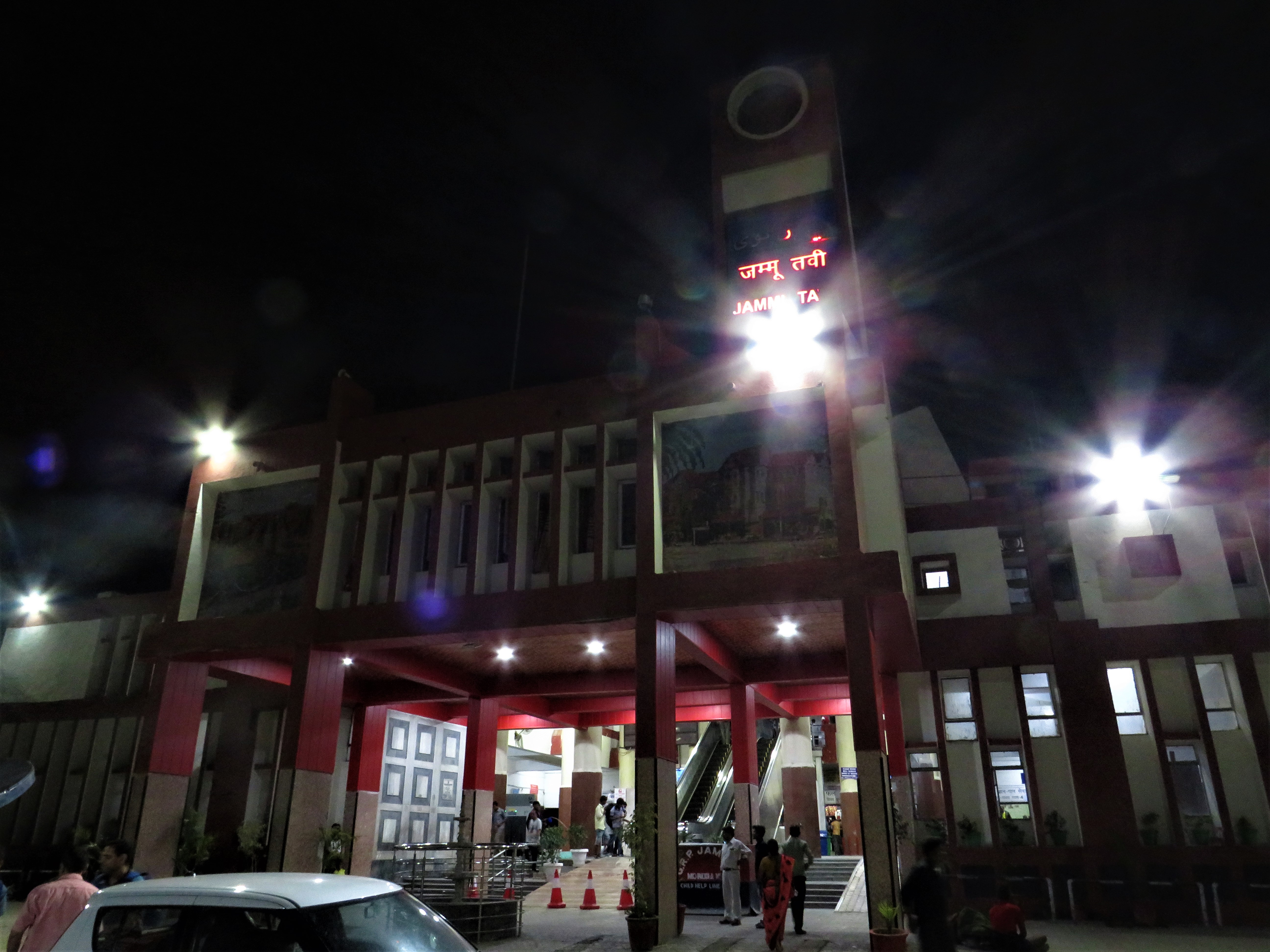 Night at Jammu Tawi Railway Station